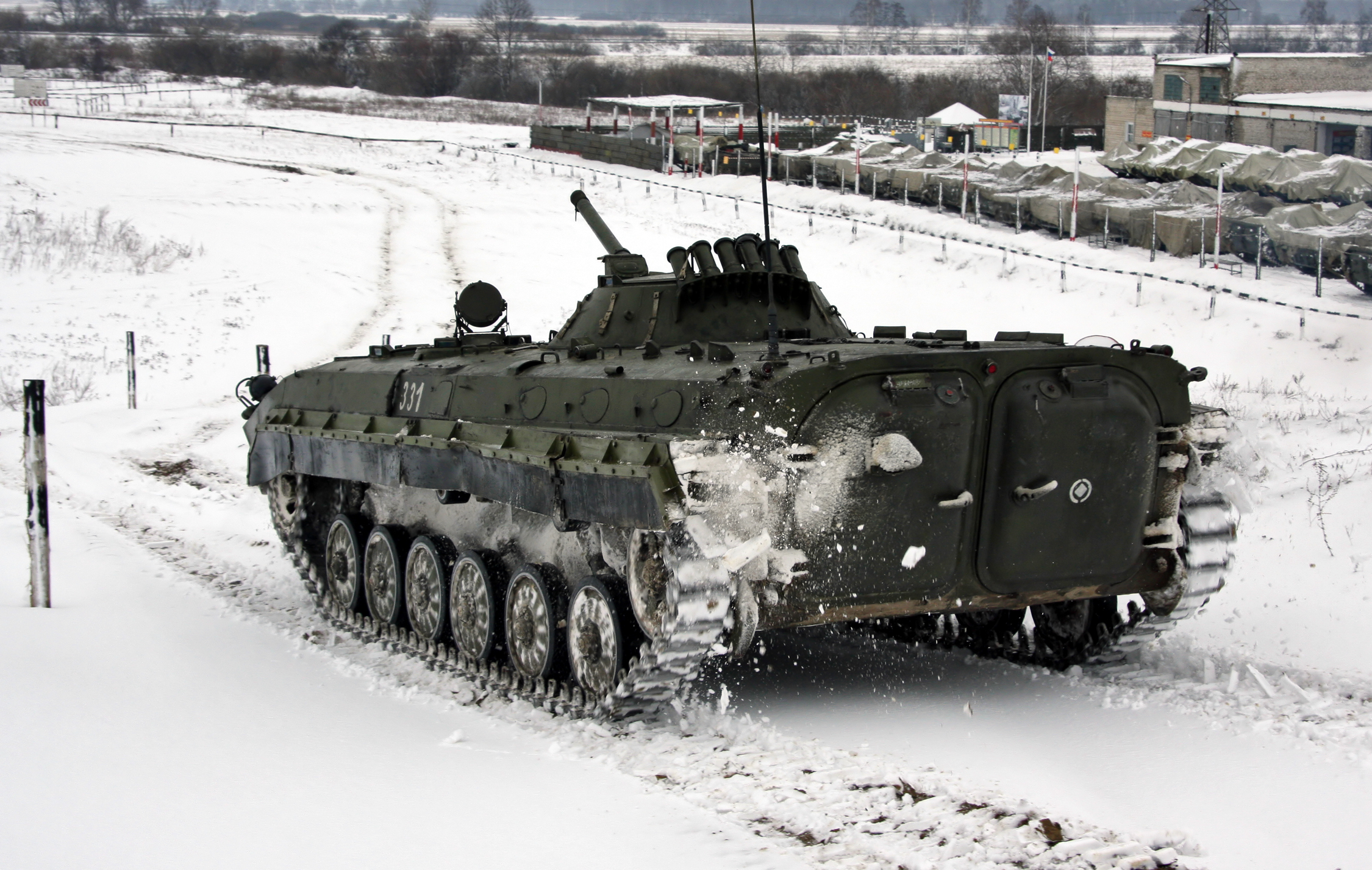 During our visit BMP drivers had the final examination